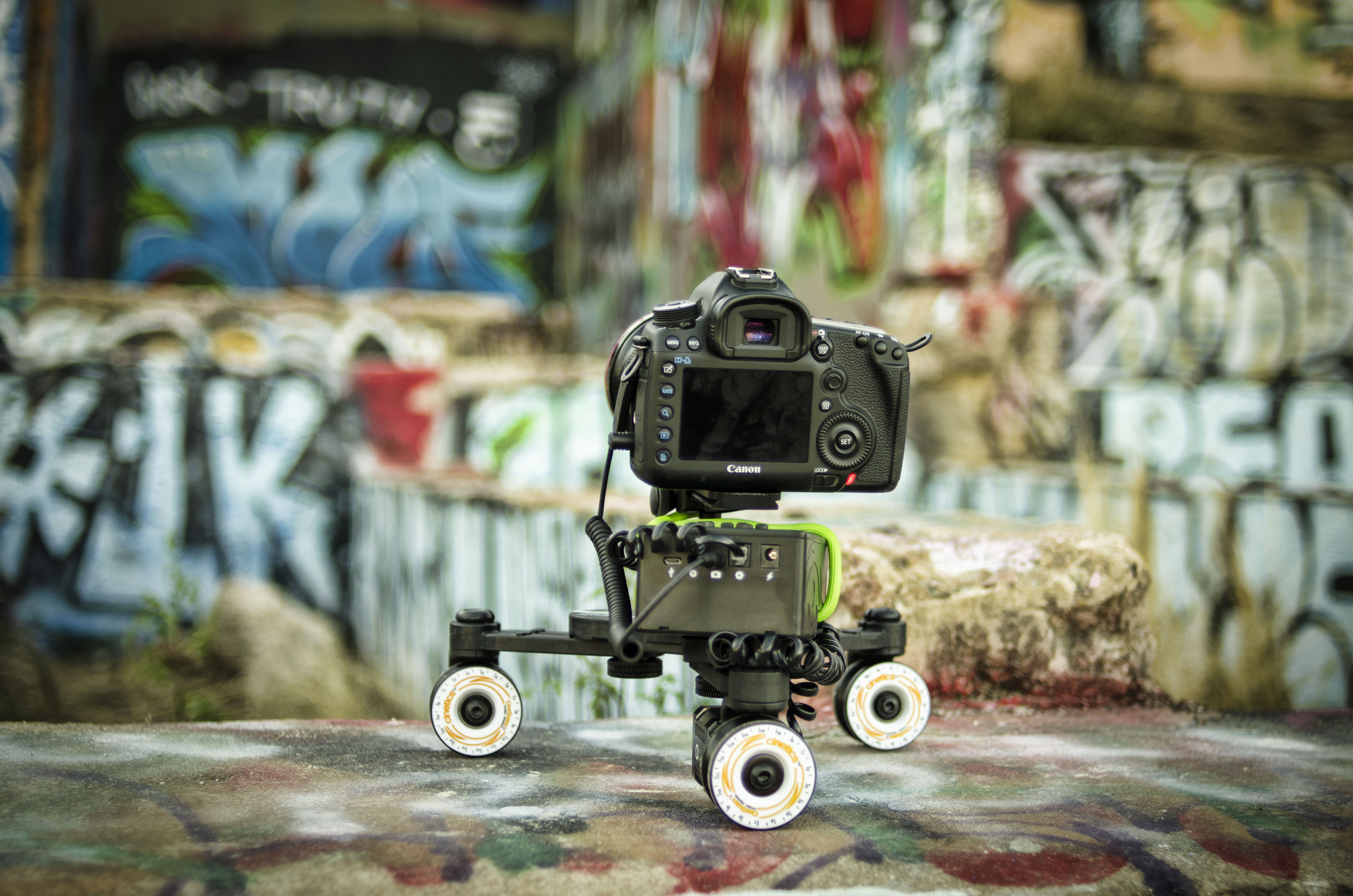 CineMoco is a motor controlled camera dolly made by Cinetics. The CineMoco dolly is primarily used for timelapse photography, live video action, stop motion animation, and visual FX.